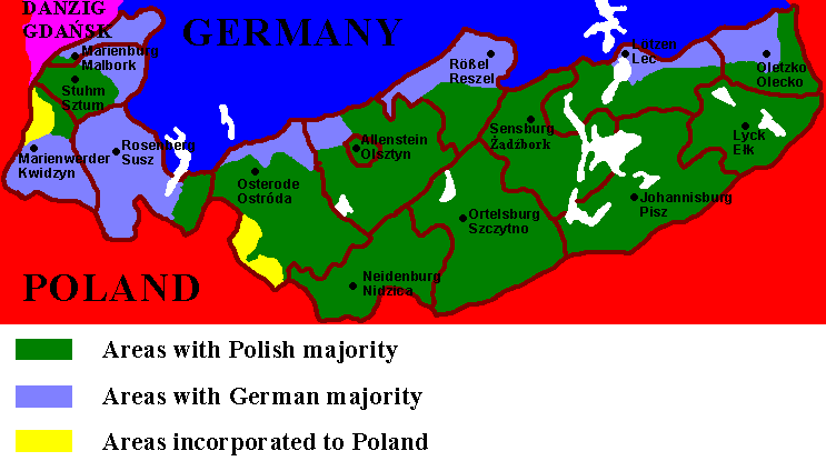 Diagram showing ethnic backgrounds of inhabitants of region affected by the East Prussian plebiscite on 11 July 1920.